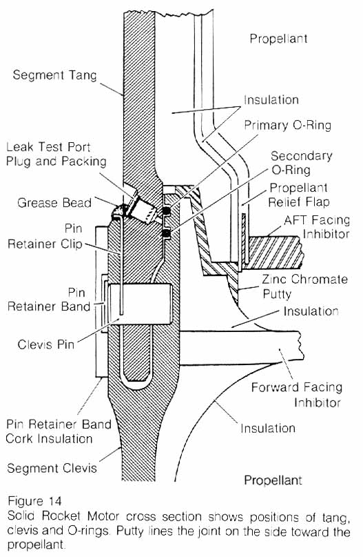 Diagram of the Space Shuttle Solid Rocket Booster field joint assembly